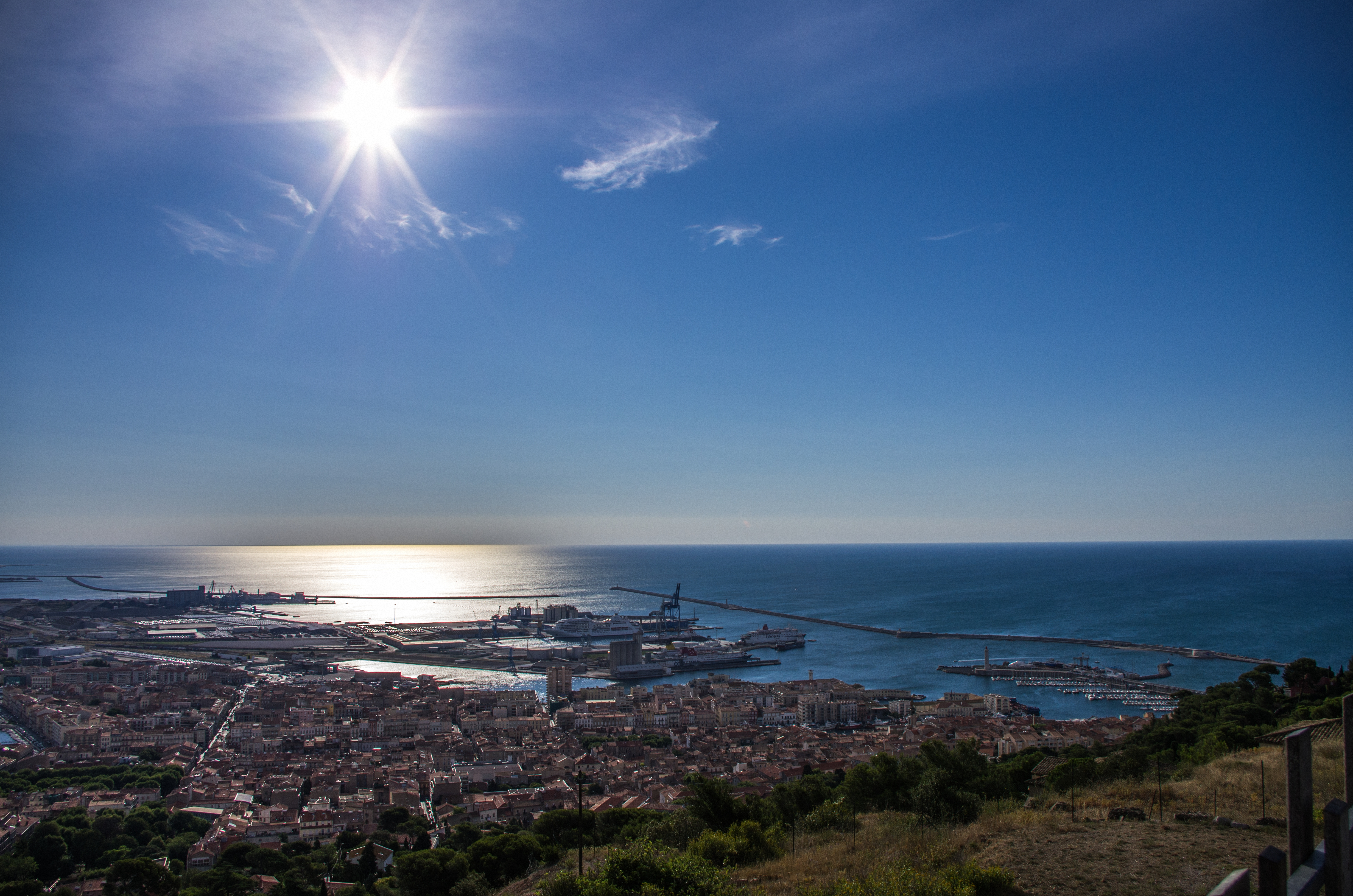 Mediterranean Sea and Sète from Mount Saint Clair, Sète,Hérault, France.